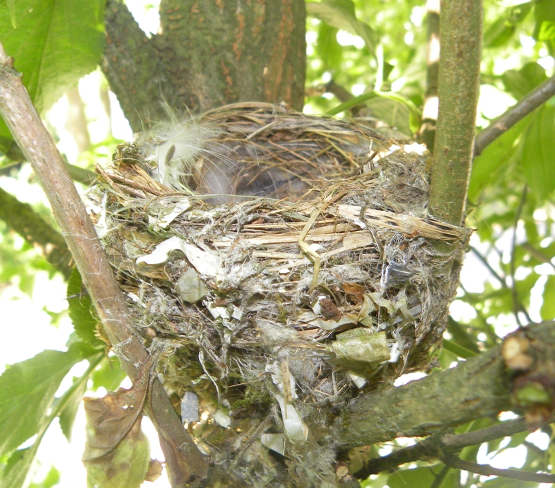 Nest of Icterine Warbler (Hippolais icterina).